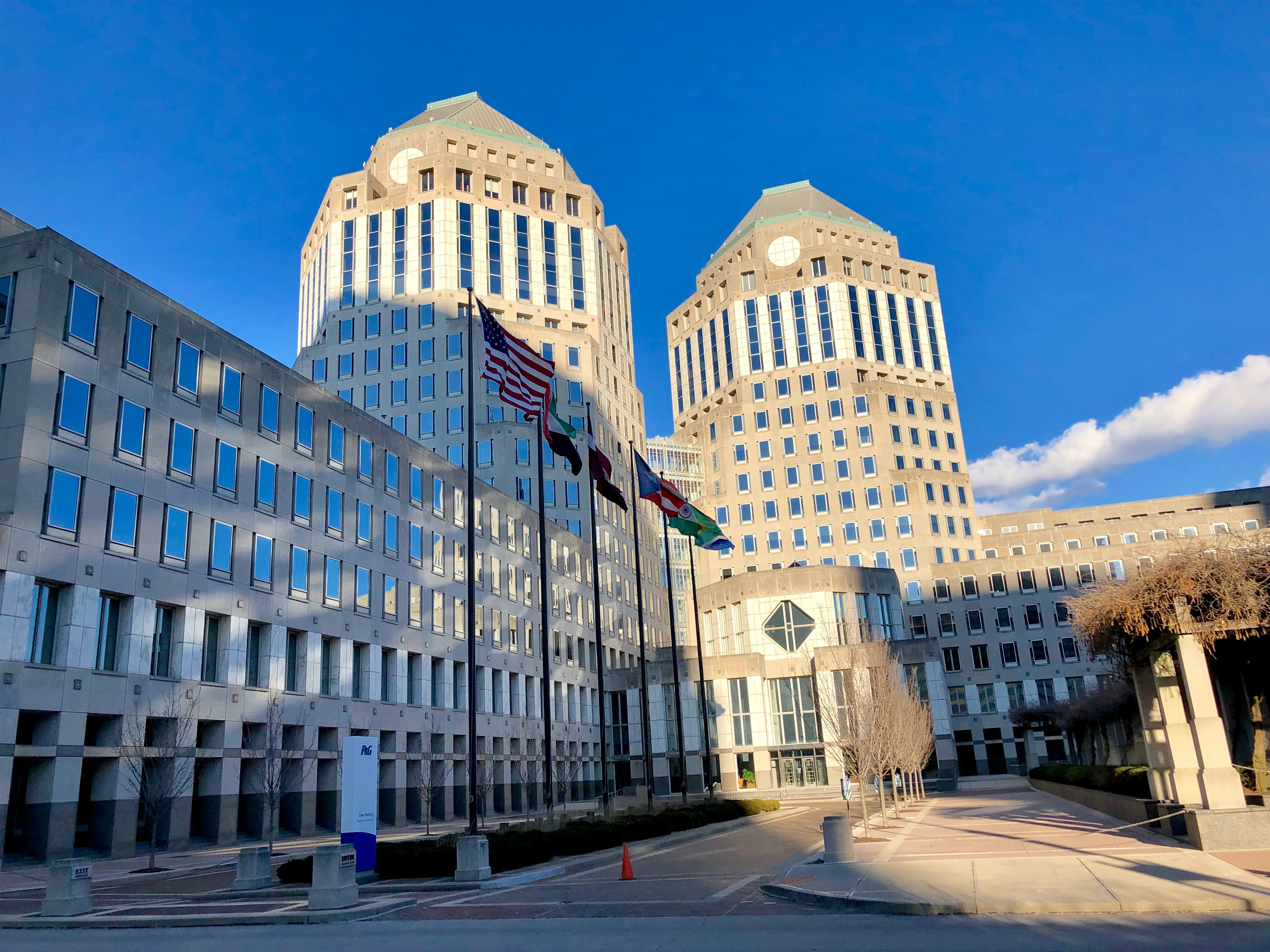 Downtown, Cincinnati, OH, USA